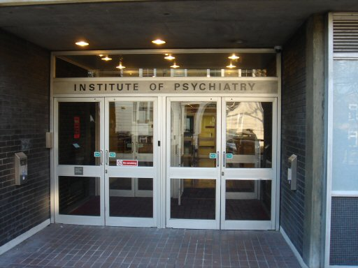 Front doors of the Institute of Psychiatry, London, UK Taken by Paul Wicks on a Sony Cybershot camera in Jan 2006